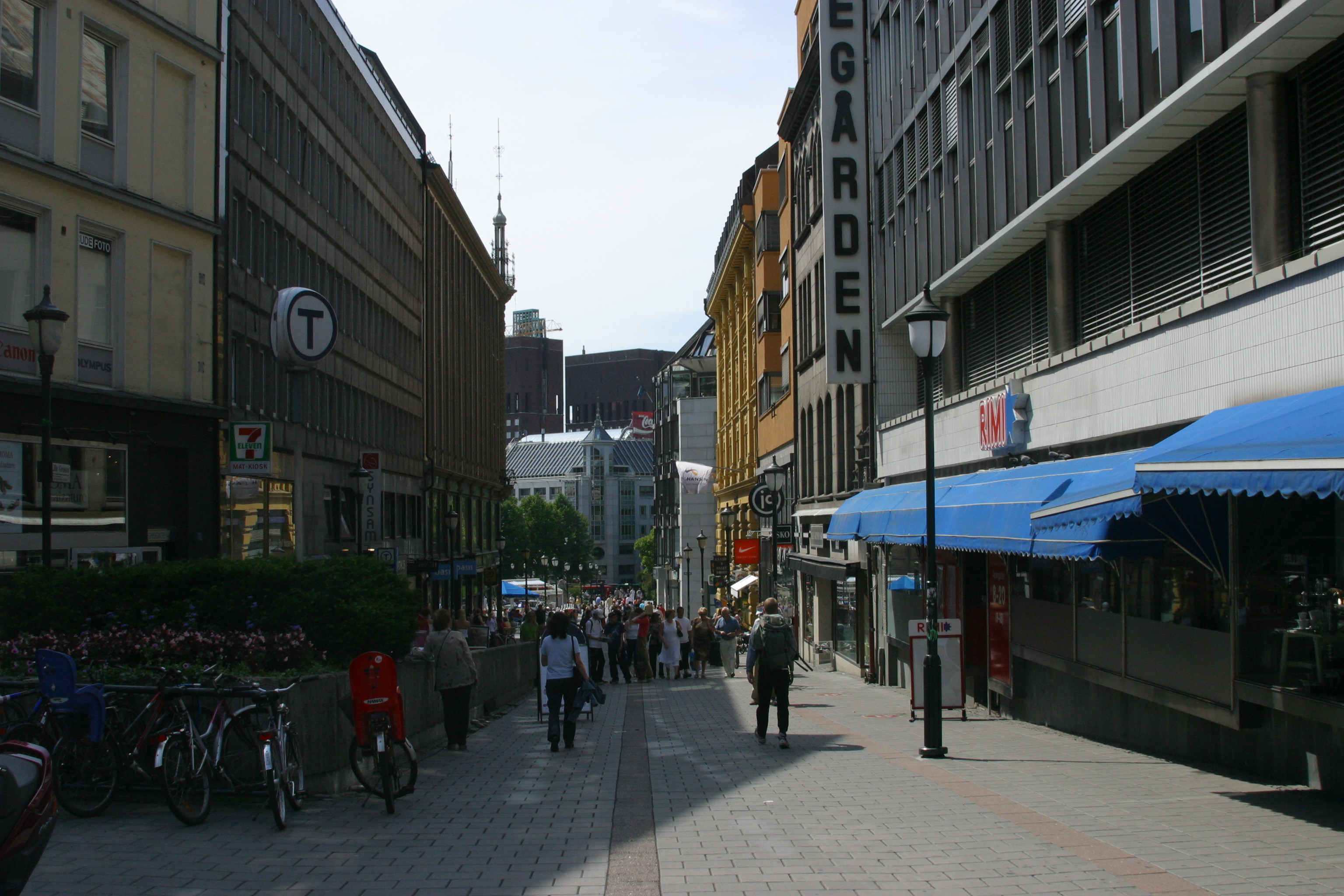 Picture of Lille Grensen (Oslo - Norway)